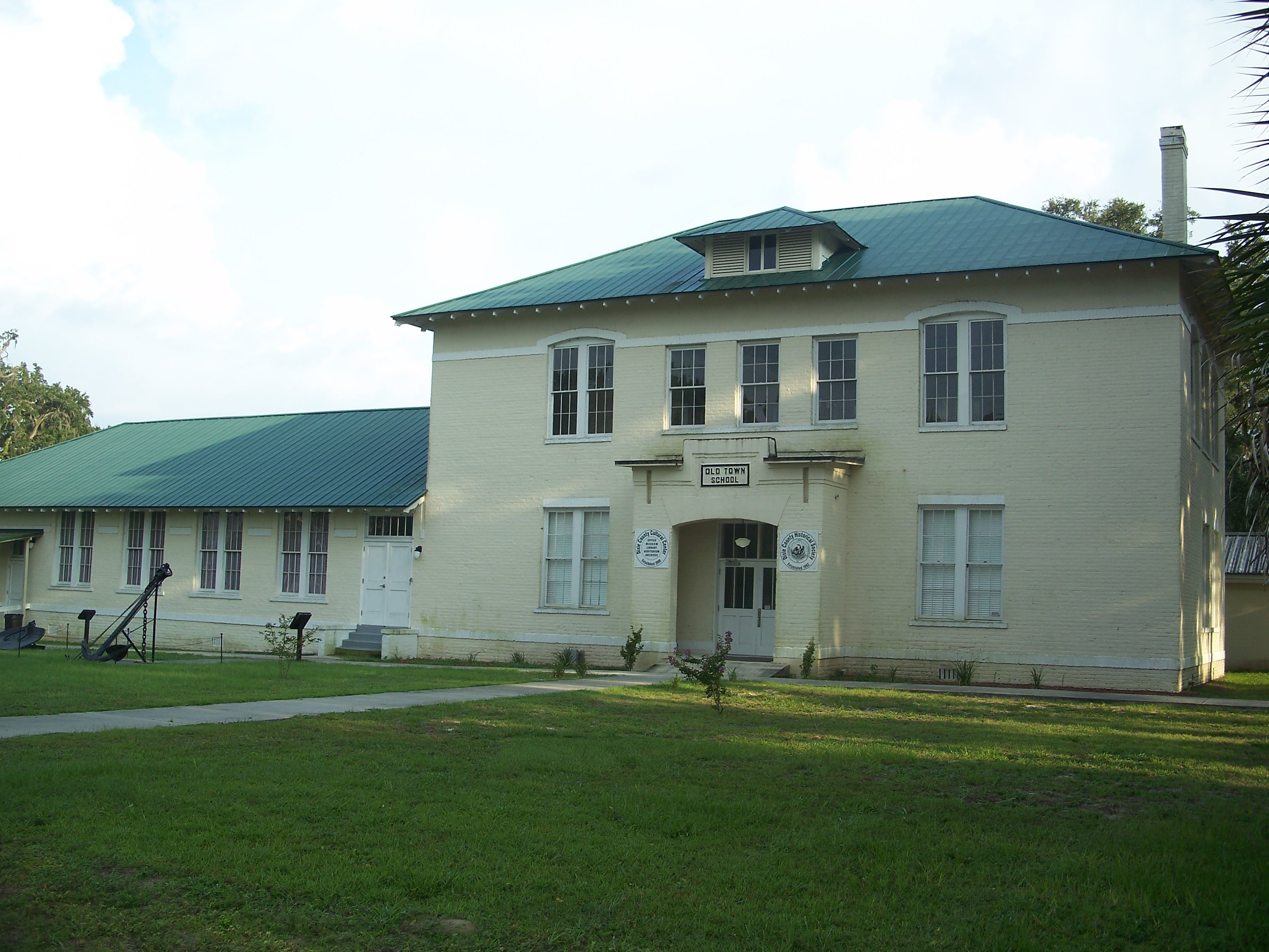 Old Town, Florida: Old Town Elementary School, now home to the Dixie County Cultural Center